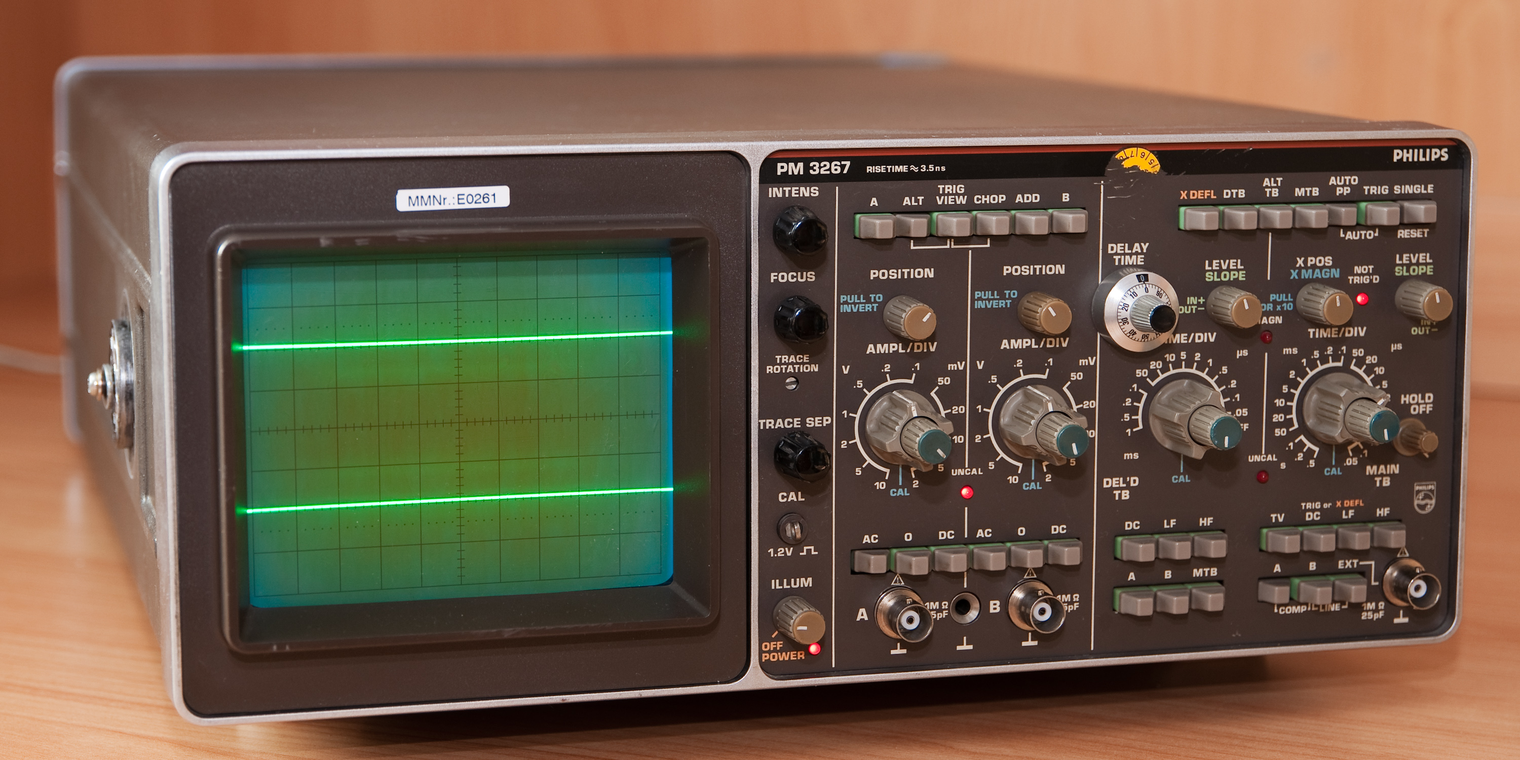 Analog dual trace 100MHz Oscilliscope (Philips PM3267) Year of manufacture: approx. 1985